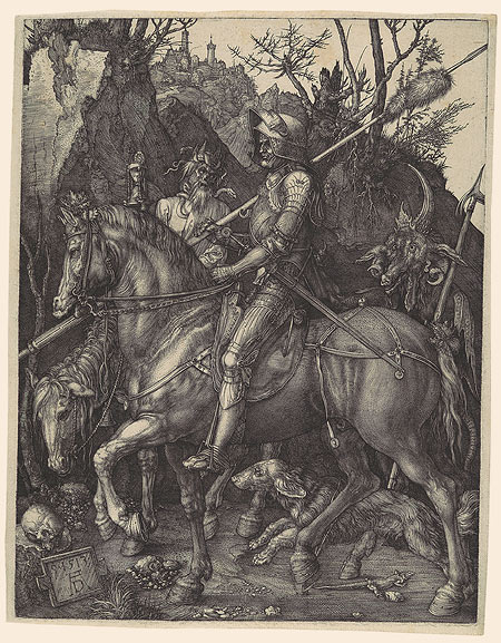 1513 engraving, one of Dürer three "master prints"